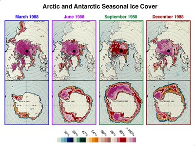 A long ridge of ice that has formed when two floes of thick ice have been squeezed together by wind or ocean currents, with the ice breaking into chunks that pile upward and also downward below the ice. This ice is difficult to cross on foot or with sleds or snowmobiles.